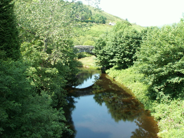 Ponterwyd, Hen Bont. The old bridge over the Rheidol at Ponterwyd. Looking N.